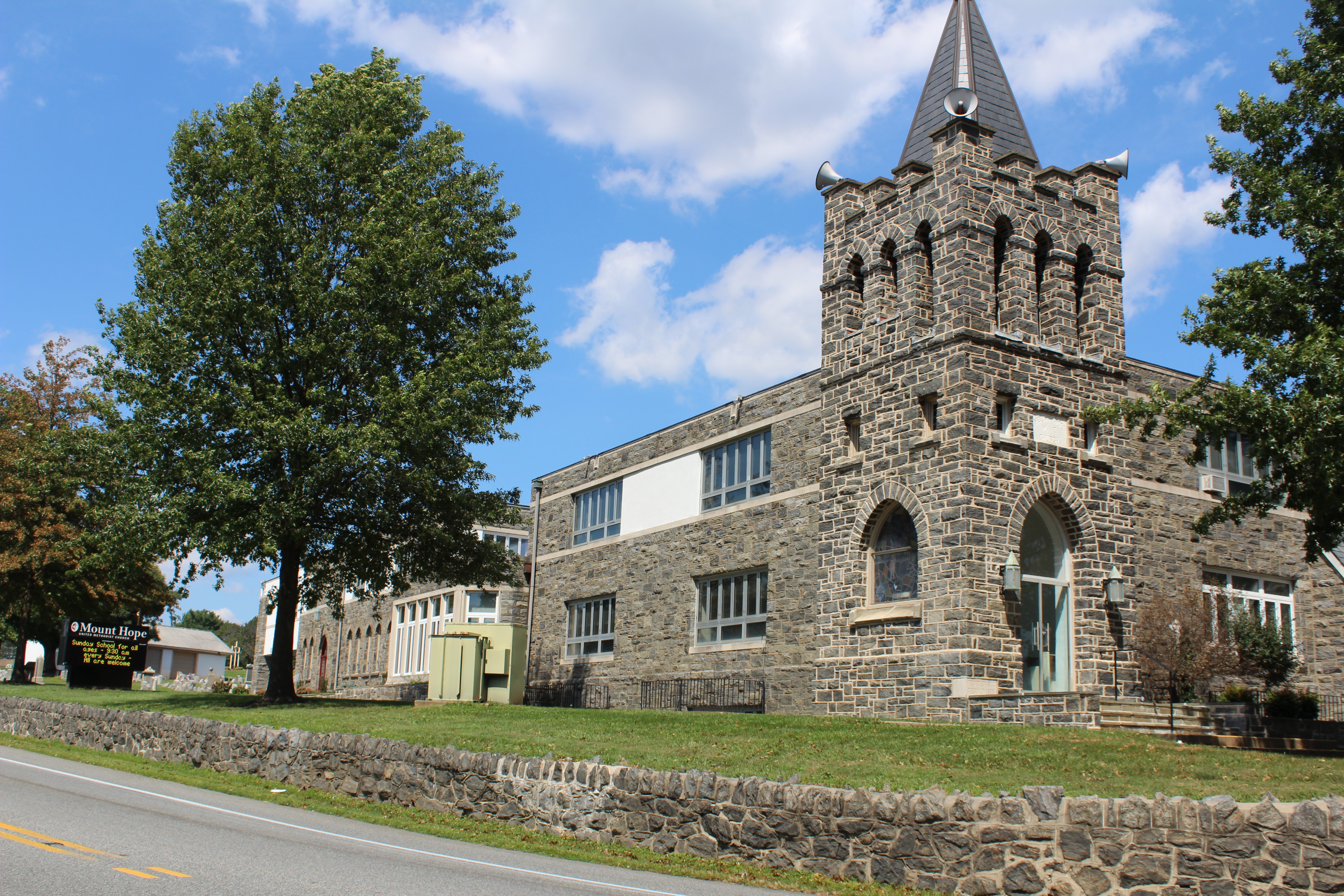 Picture of Mount Hope United Methodist Church in Aston, PA taken in September 2017